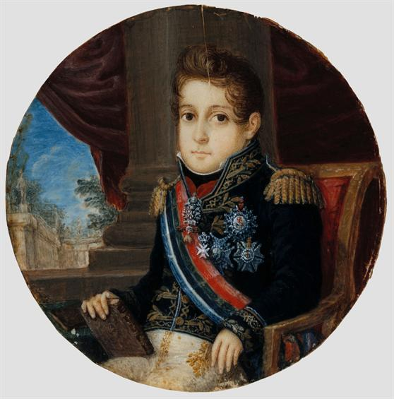 Emperor Dom Pedro I of Brazil (and King Dom Pedro IV of Portugal) around age 11, c.1809. This a later portrait of him, since he is wearing an uniform from the time he was emperor (when he was a child the uniforms were red, not blue). It is located in the Museu Nacional de Arte Antiga.